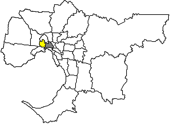 Map of Melbourne, Victoria (Australia), LGA of Maribyrnong City highlighted